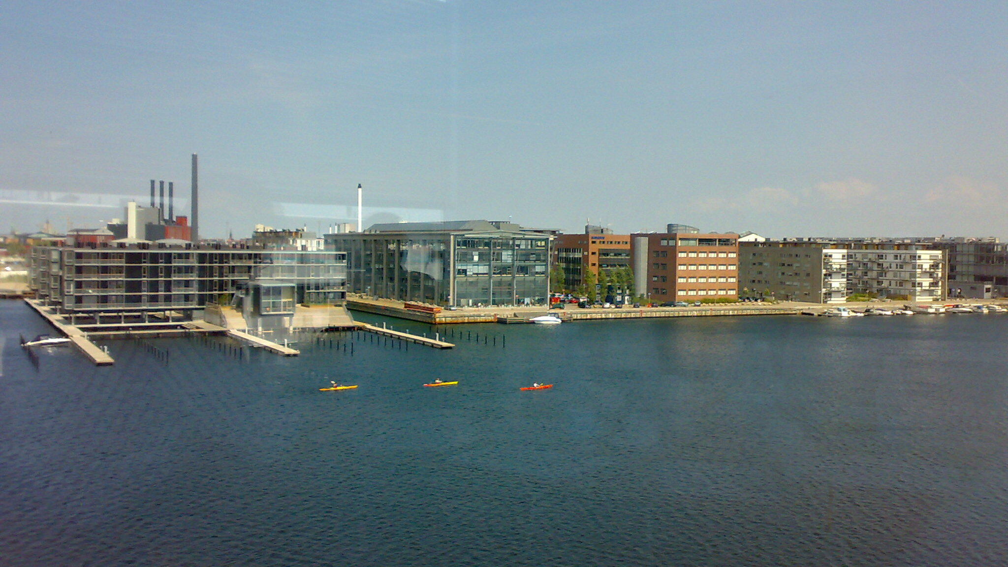 Copenhagen Sydhavn (South Harbour), Amager, Teglholm